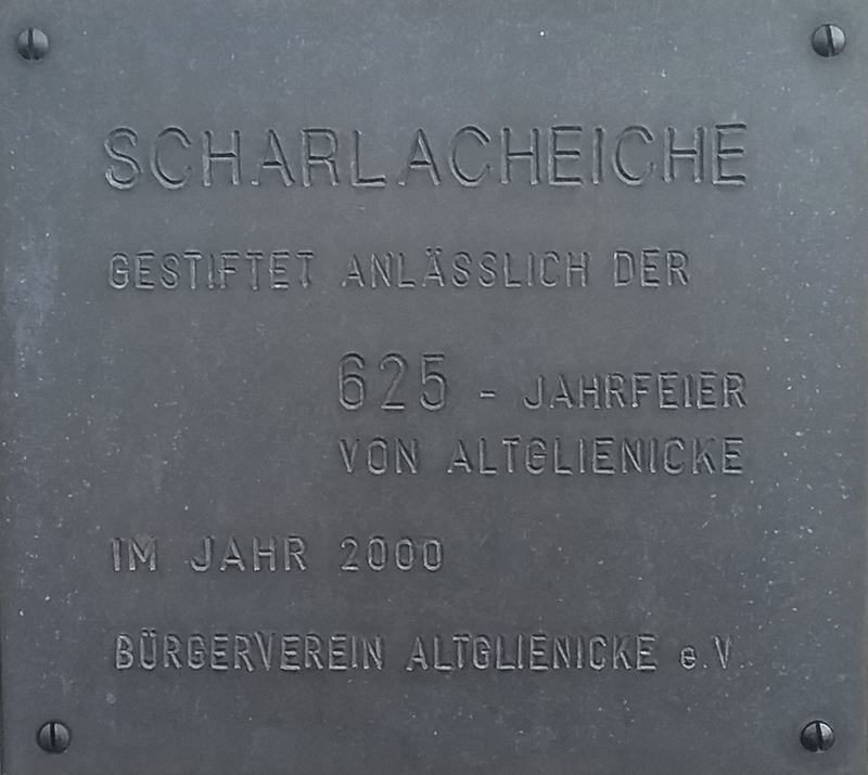 Cast-Iron Plate of the Scarlet Oak (Berlin-Altglienicke)